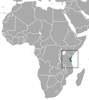 Black and Rufous Elephant Shrew (Rhynchocyon petersi) range